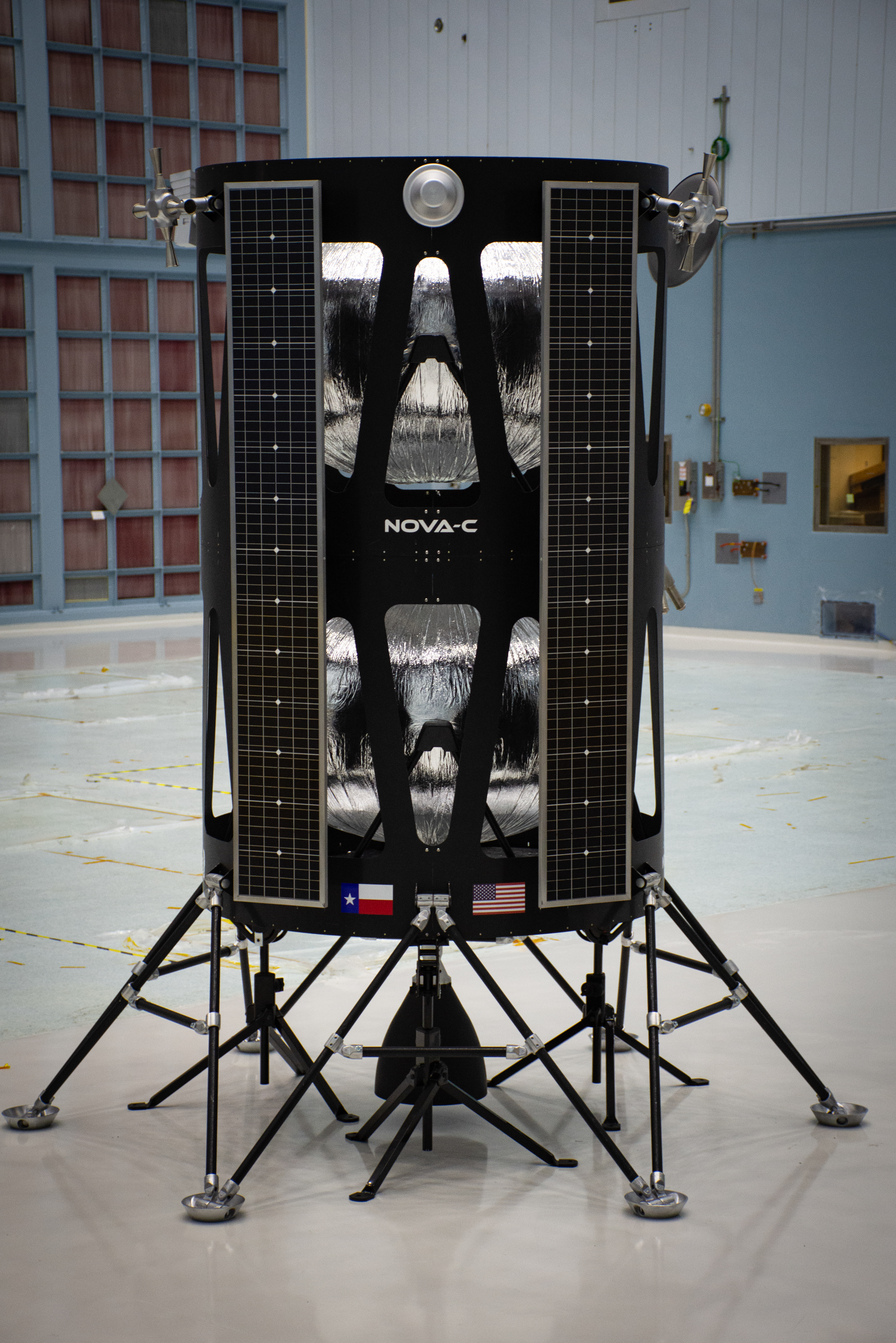 NASA has selected three commercial Moon landing service providers that will deliver science and technology payloads under Commercial Lunar Payload Services (CLPS) as part of the Artemis program. Each commercial lander will carry NASA-provided payloads that will conduct science investigations and demonstrate advanced technologies on the lunar surface, paving the way for NASA astronauts to land on the lunar surface by 2024. The selections are: • Astrobotic of Pittsburgh has been awarded $79.5 million and has proposed to fly as many as 14 payloads to Lacus Mortis, a large crater on the near side of the Moon, by July 2021. • Intuitive Machines of Houston has been awarded $77 million. The company has proposed to fly as many as five payloads to Oceanus Procellarum, a scientifically intriguing dark spot on the Moon, by July 2021. • Orbit Beyond of Edison, New Jersey, has been awarded $97 million and has proposed to fly as many as four payloads to Mare Imbrium, a lava plain in one of the Moon’s craters, by September 2020. This commercial lander from Intuitive Machines of Houston will carry NASA-provided science and technology payloads to the lunar surface, paving the way for NASA astronauts to land on the Moon by 2024. All three of the lander models were on display for the announcement of the companies selected to provide the first lunar landers for the Artemis program, on Friday, May 31, 2019, at NASA's Goddard Space Flight Center in Greenbelt, Md. Read more: Credit: NASA/Goddard/Rebecca Roth